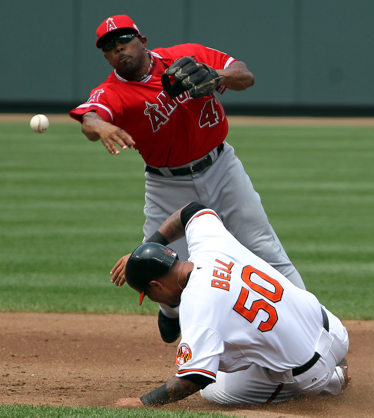 Second baseman Howard Kendrick #47 of the Los Angeles Angels throws to first base after forcing out Josh Bell #50 of the Baltimore Orioles at second base on a double play during the third inning at Oriole Park at Camden Yards on July 24, 2011 in Baltimore, Maryland.